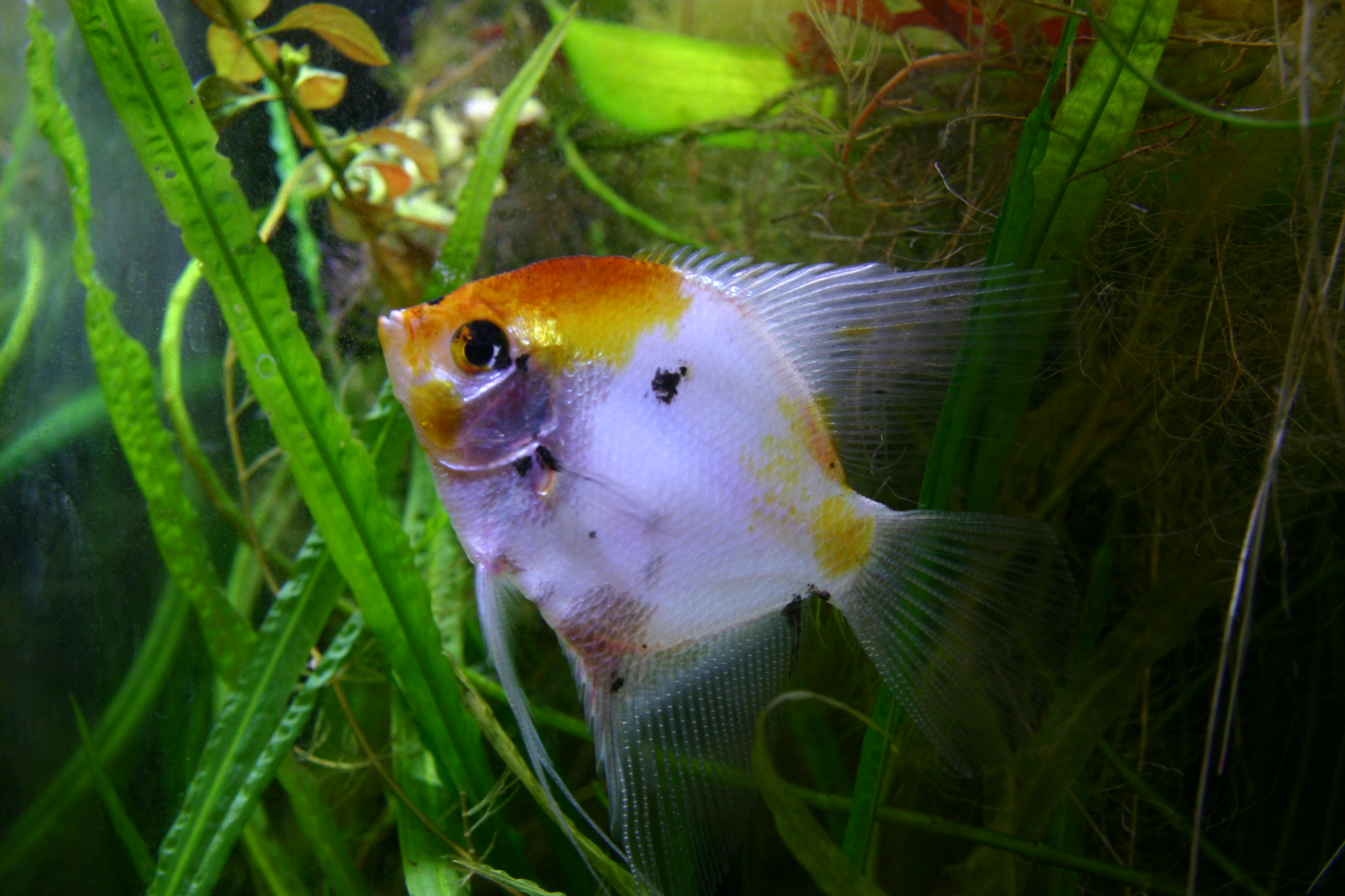 Freshwater angelfish, Koi phenotype